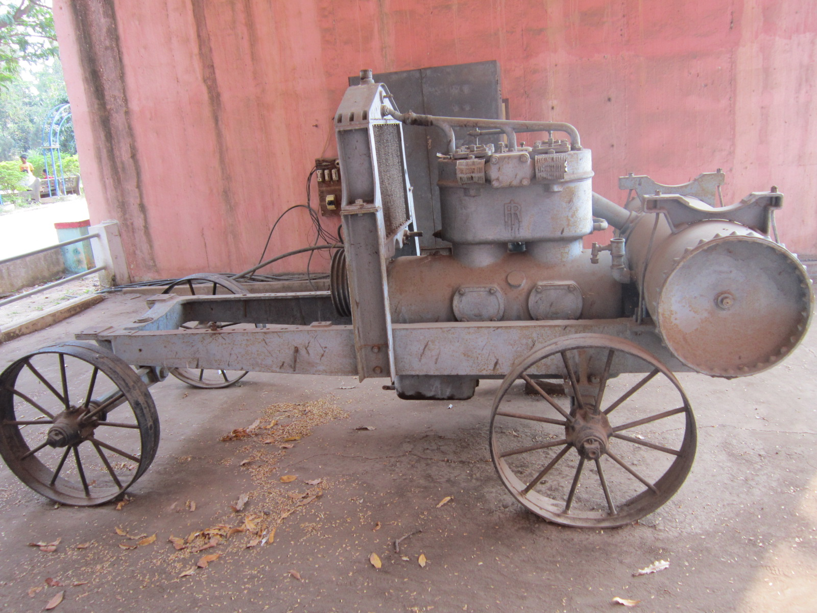 Air compressor used at dam construction